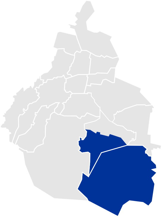 Map of the Twenyfirst Federal Electoral District of the Federal District, México.